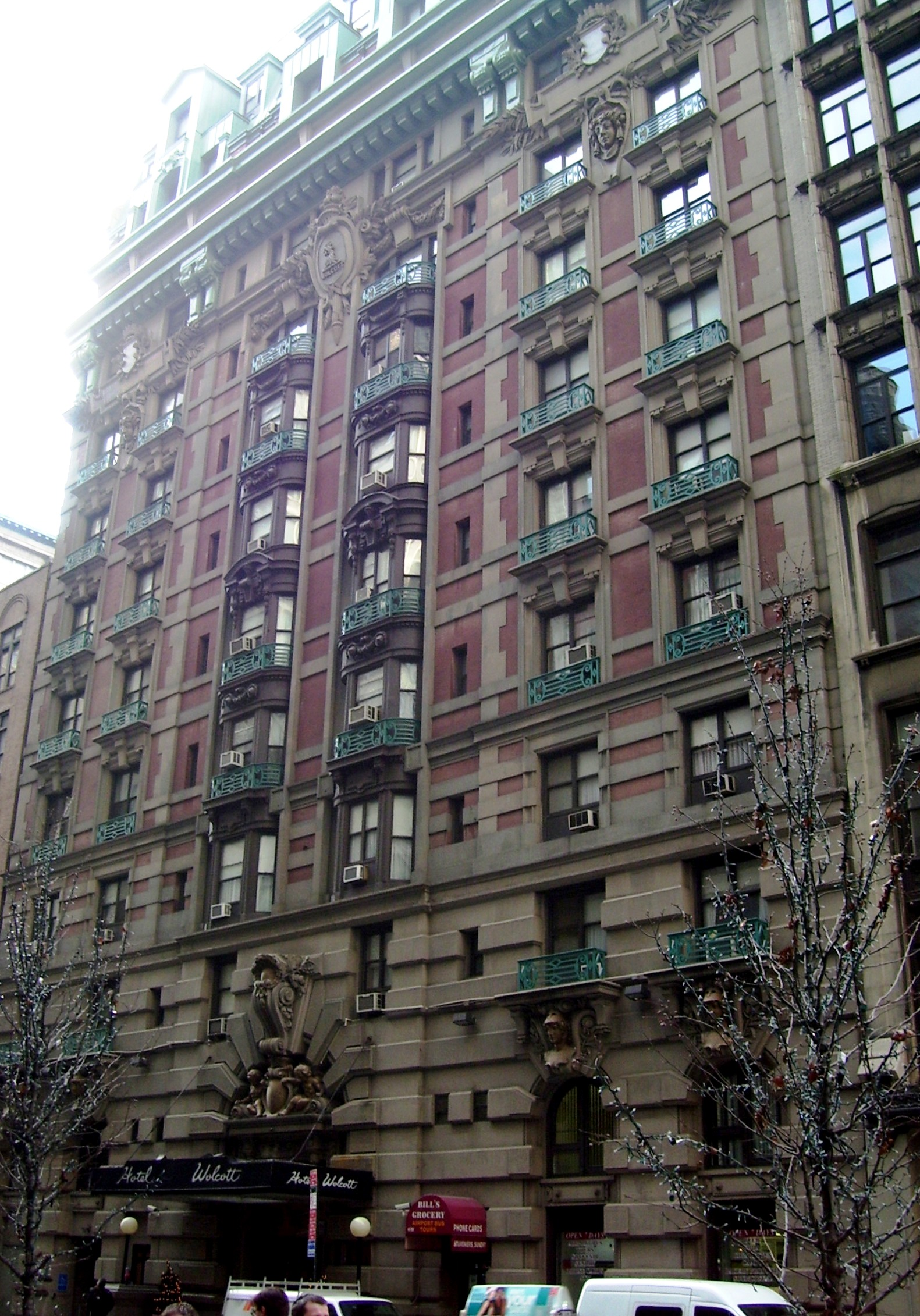 The Hotel Wolcott at 4 West 31st Street in Manhattan, New York City as seen from the west. The hotel was built in 1902-1904 and was designed in the Beaux-Arts style by John H. Duncan. It was designated a New York City Landmark on December 20, 2011. (Source: NYCLPC Designation Report)